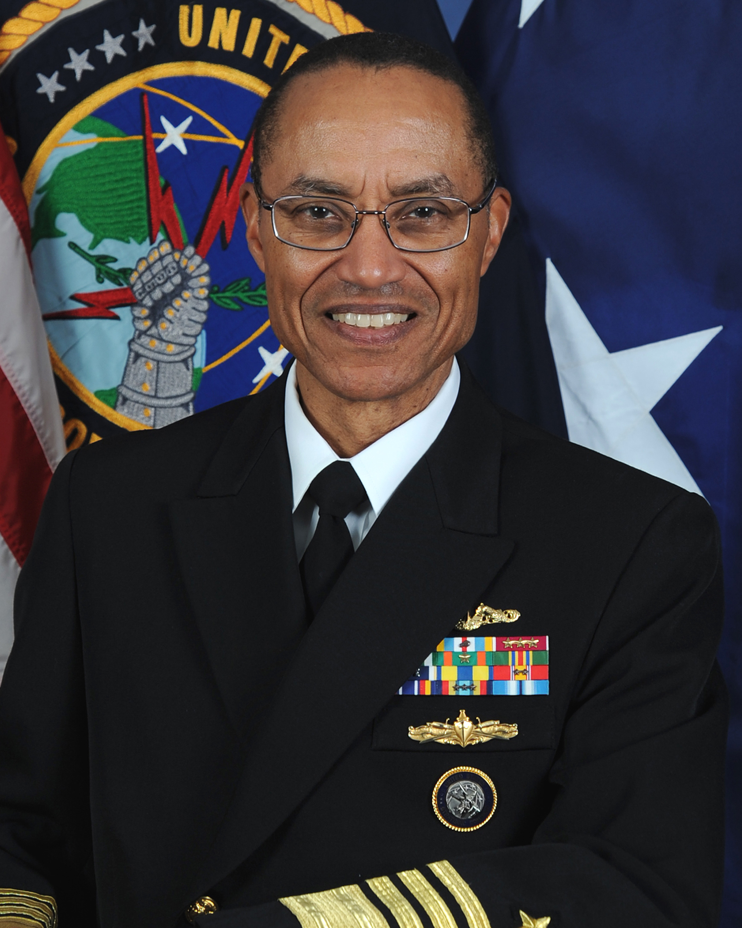 Admiral Cecil D. Haney, USN9th Commander, U.S. Strategic Command